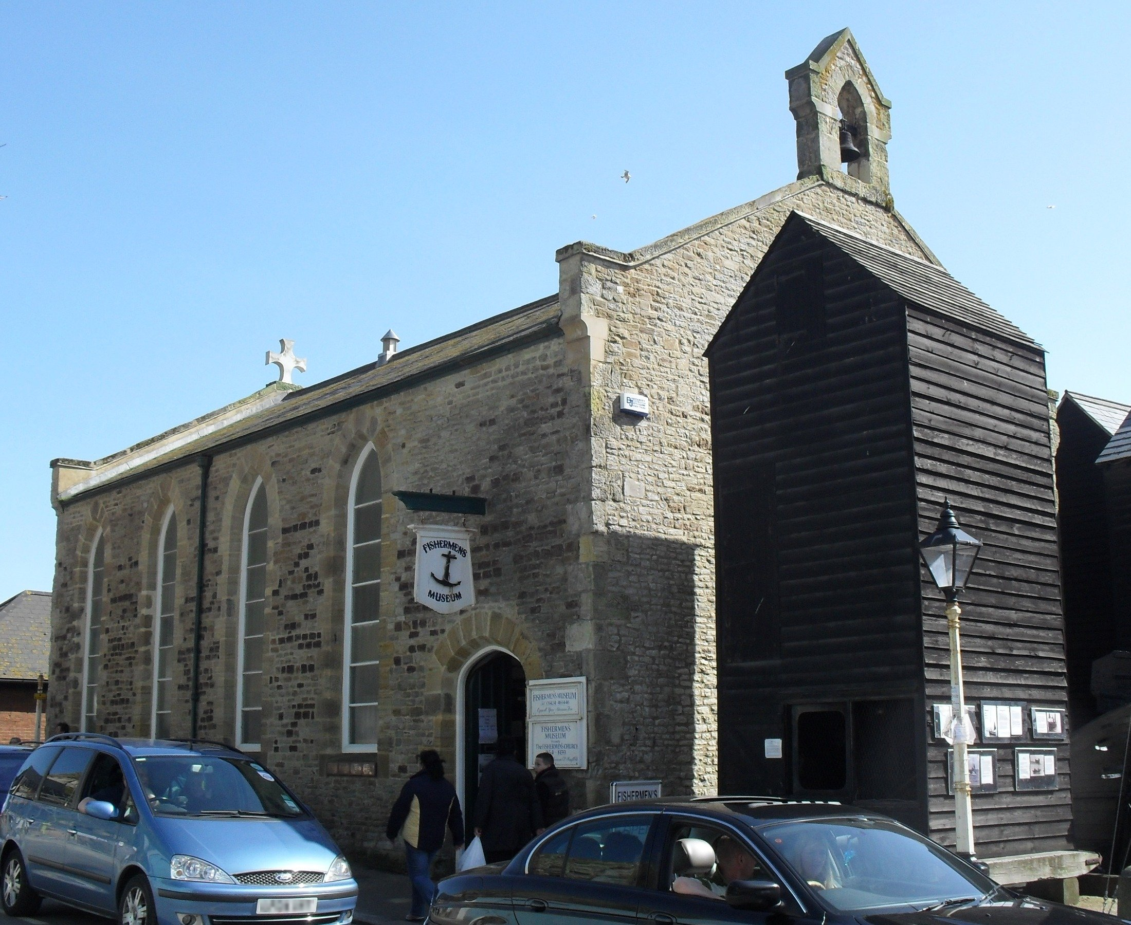 Former church of St Nicholas, Rock-a-Nore Road, Hastings, East Sussex, England. Built in 1854 on the beach below the East Cliff as the Hastings fishermen's church. Closed after World War II and converted into the Hastings Fishermen's Museum.